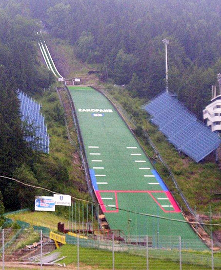 Wielka Krokiew ski jumping hill in Zakopane, Poland